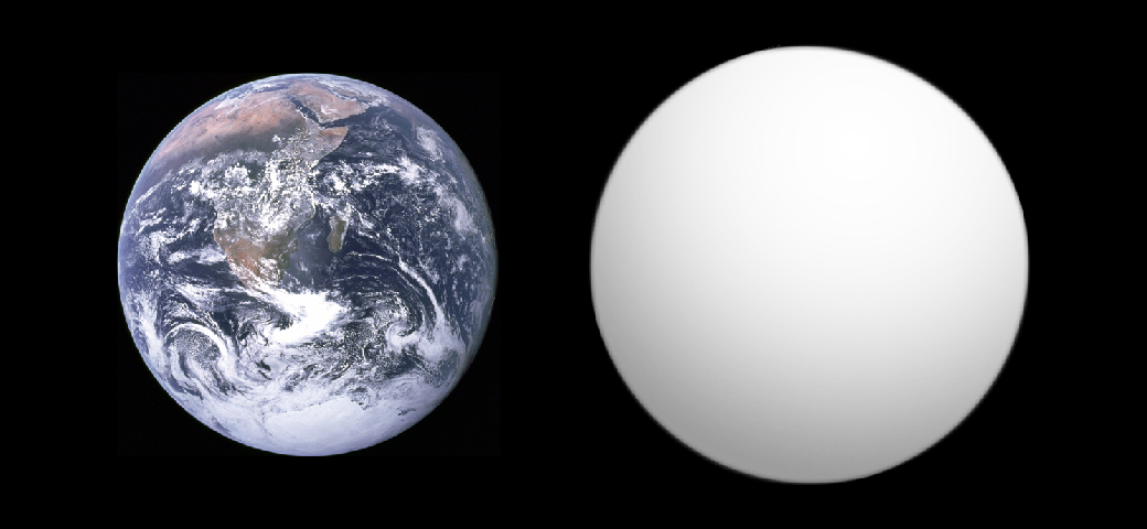 Comparison of best-fit size of the exoplanet GJ 1132 b with the Solar System planet Earth, as reported in the Open Exoplanet Catalogue[1] as of 2015-11-14. ↑ Open Exoplanet Catalogue ( {catversiondate2015-11-14 }). Retrieved on 2015-11-14.